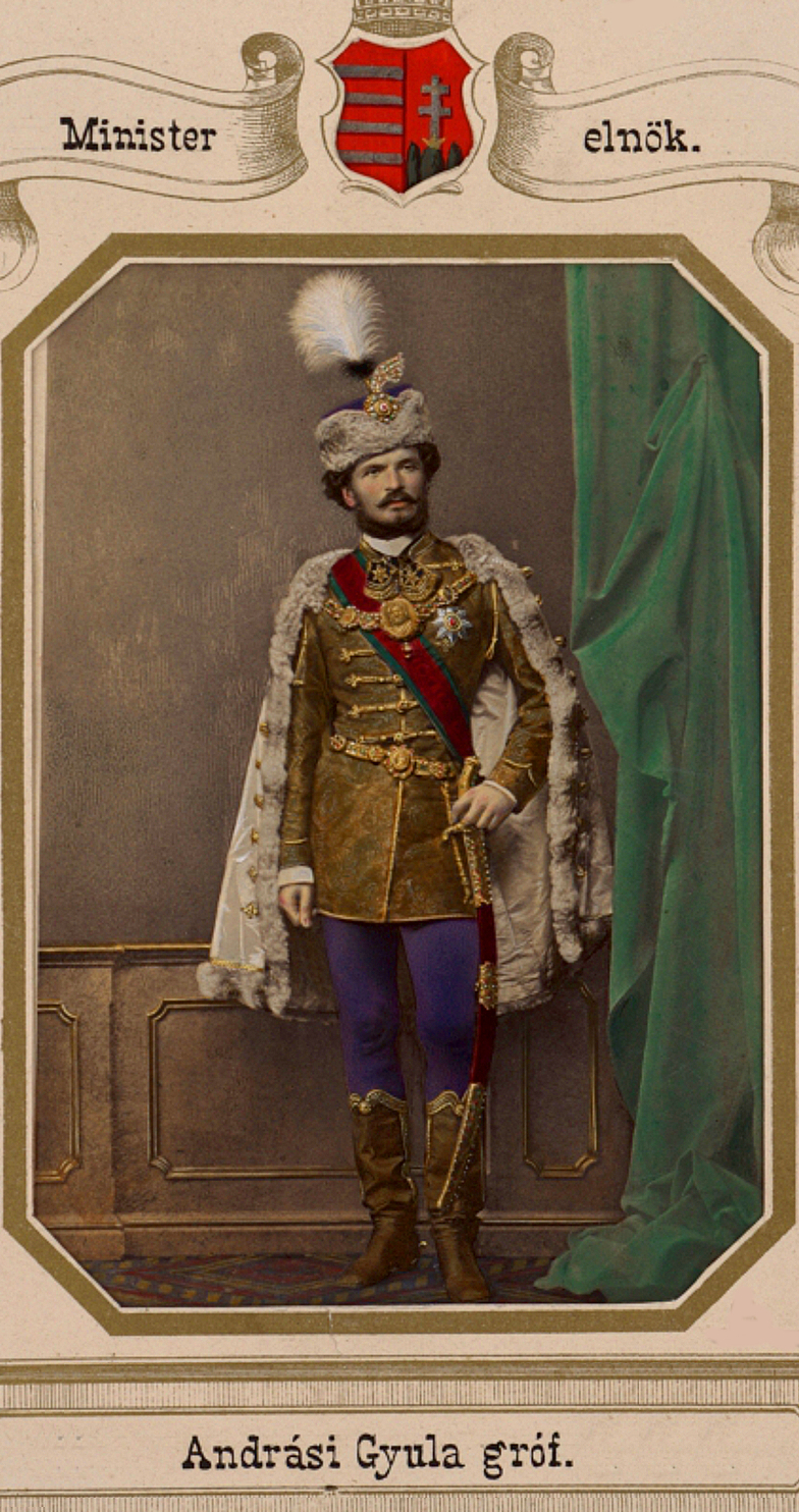 Idősebb csíkszentkirályi és krasznahorkai gróf Andrássy Gyula (Kassa, 1823. március 3. – Volosca (Fiume mellett). 1890. február 18.); magyar politikus, államférfi, 1867–71-ig a Magyar Királyság miniszterelnöke